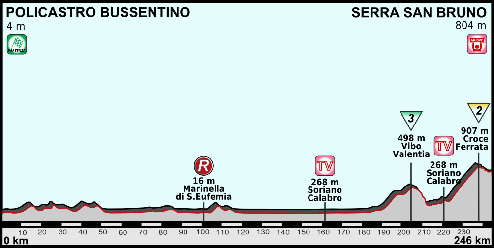 Giro d'Italia 2013 - stage profile # 04